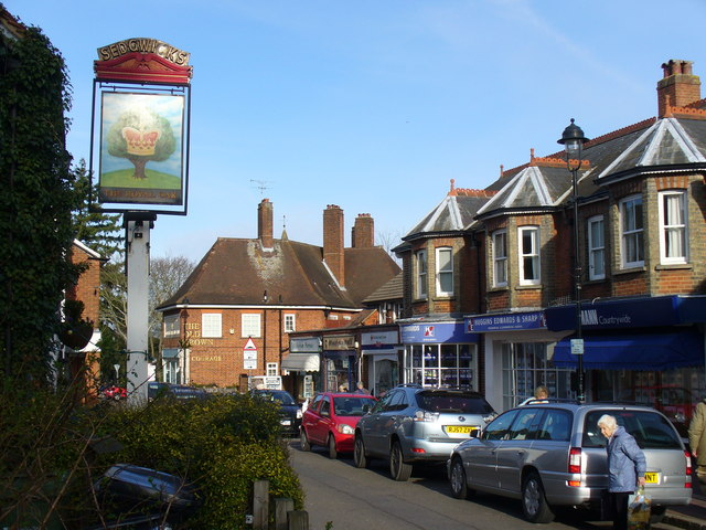 High Street Downtown Great Bookham with pubs and shops lining the busy High Street. The Royal Oak sign still carries the name of a former brewery - Sedgwick's of Watford.